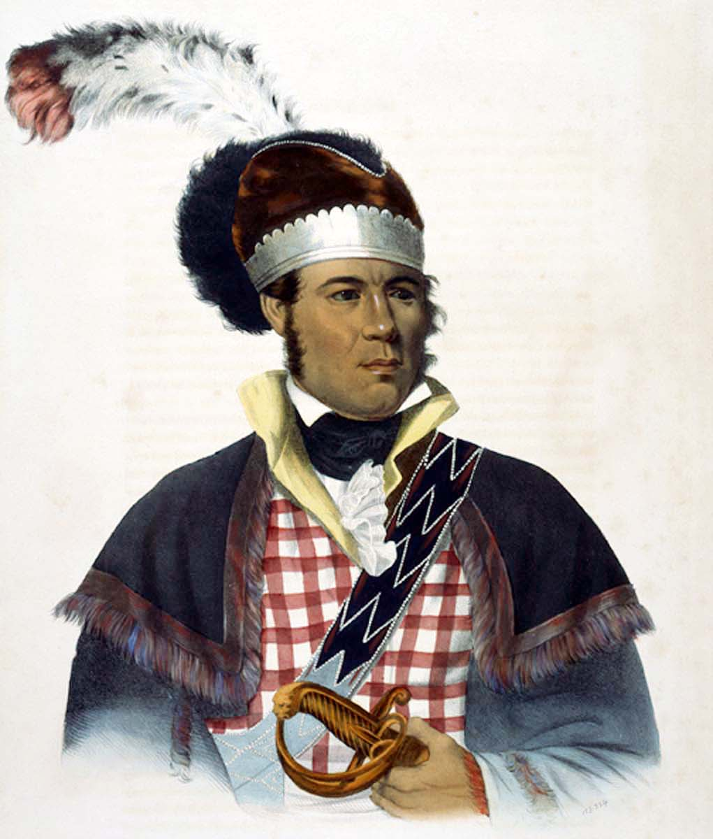 William McIntosh (1775 – 1825)